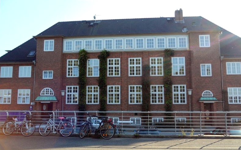 Former sailor school Hamburg-Finkenwerder from 1913 to 1944. - Photographed in August 2012 by Hummel Hummel. - Today, there are the offices of an IT company in the building and a municipal authority.